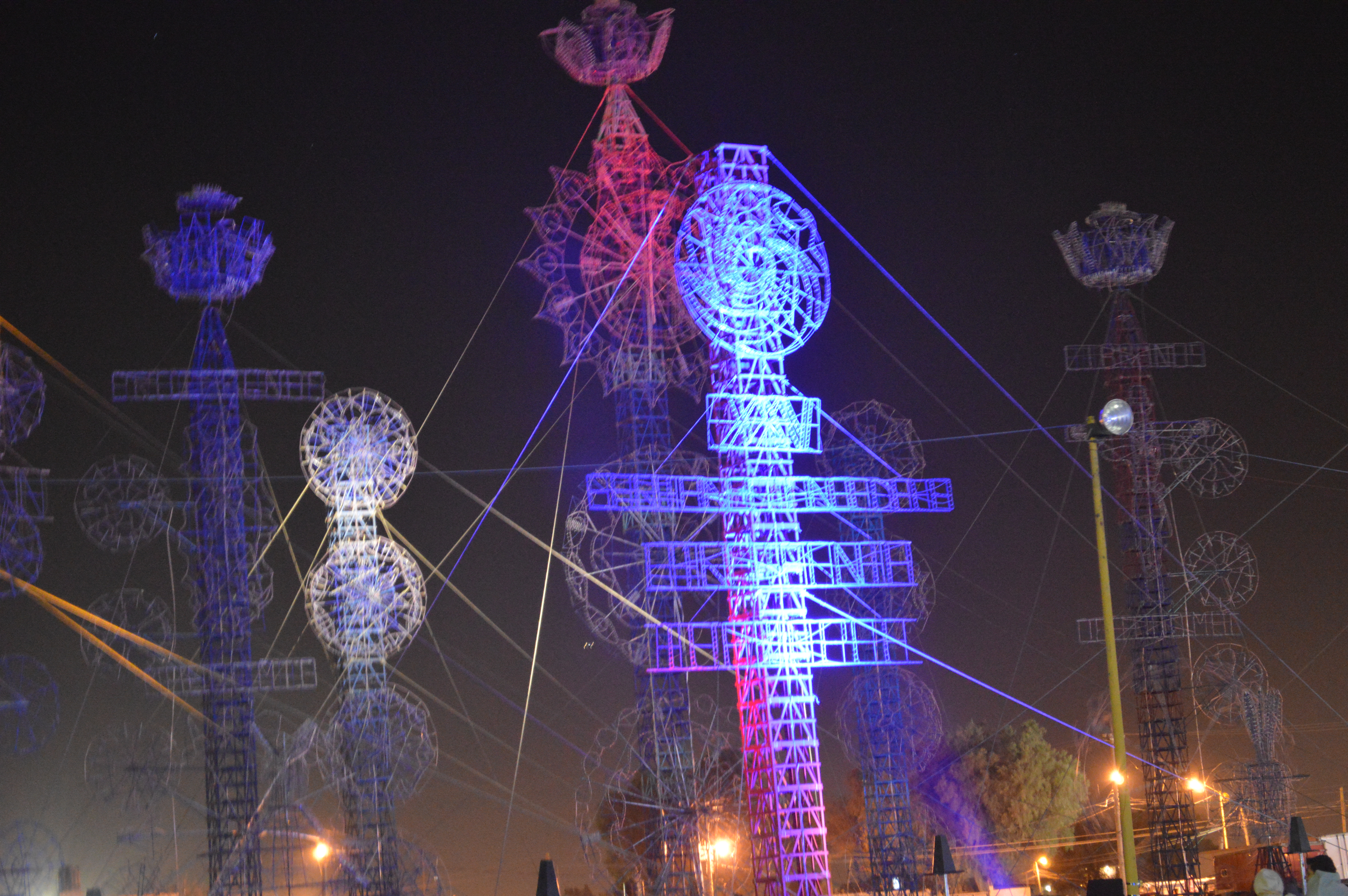 Fireworks castles ready for the Feria Nacional de la Pirotecnia Tultepec 2013